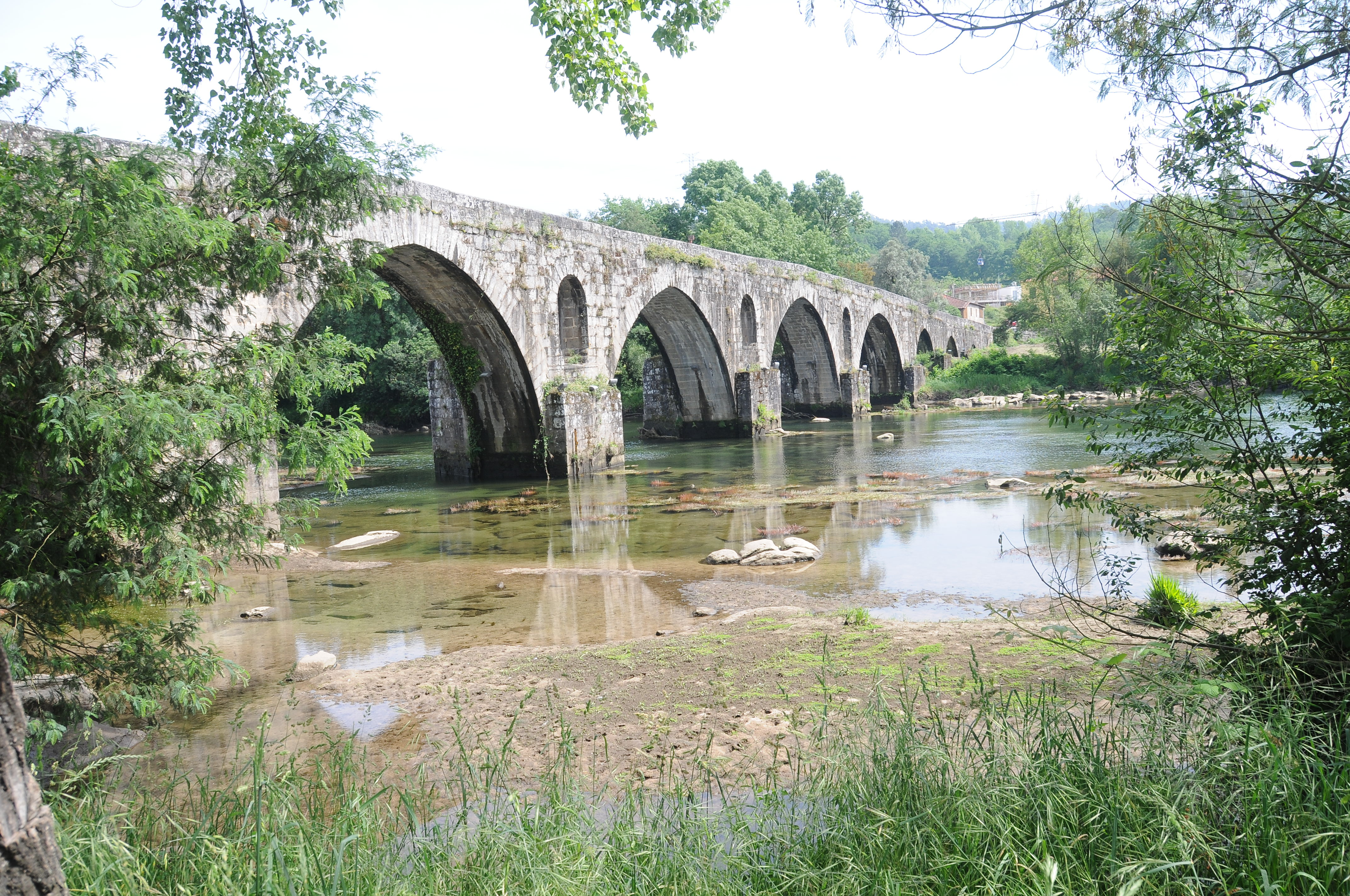 Bridge of the Porto situated over the river Cávado, between Braga and Amares.